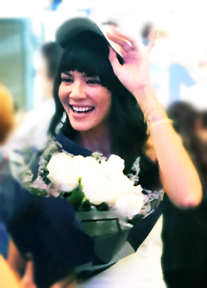 Photo of Pim Sonia Couling @ Thai TV show The Face Men Thailand season 2's press conference on 24 September 2018 at Fashion Hall, Siam Paragon, Bangkok, Thailand.